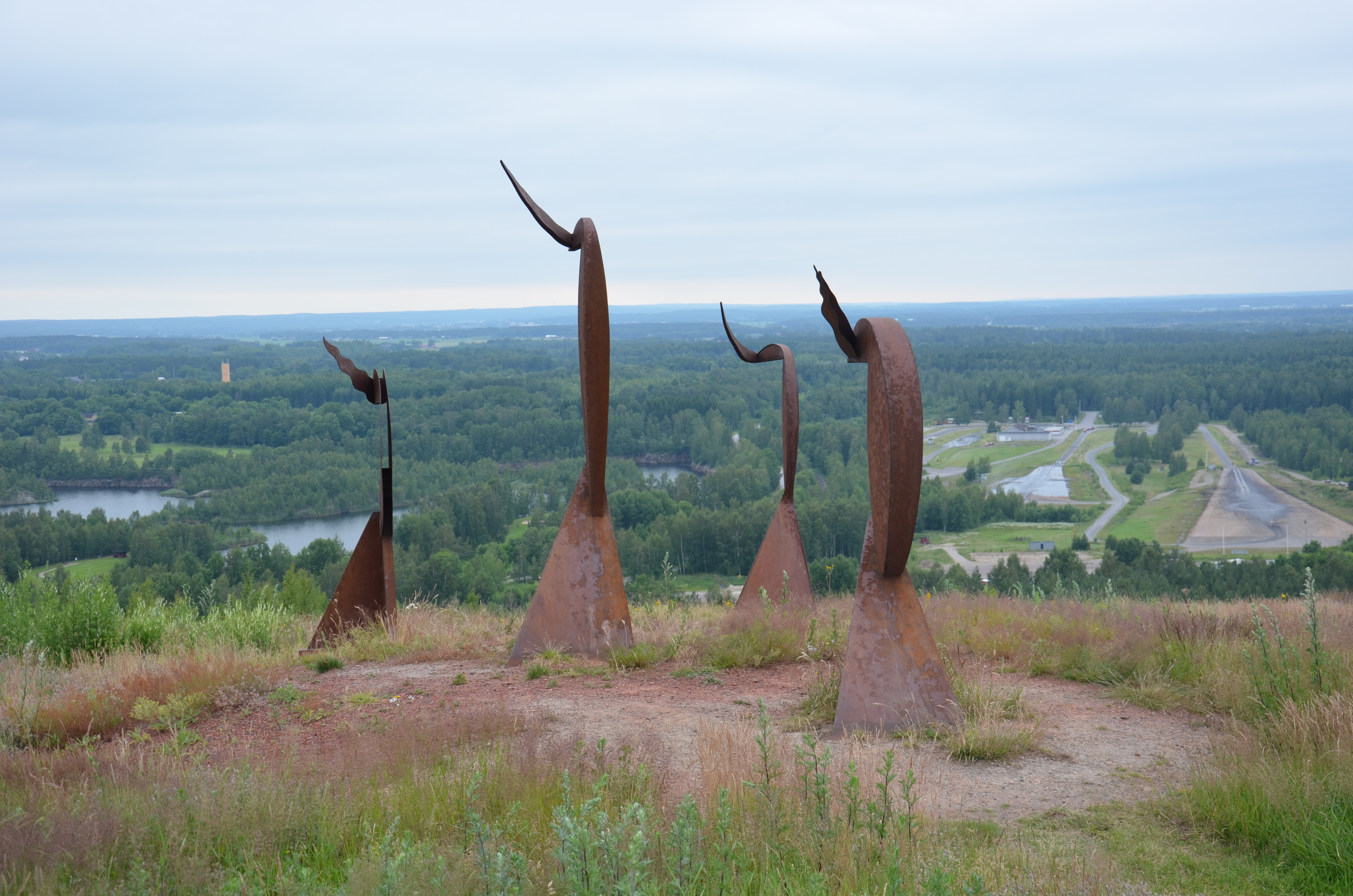 Lenny Clarhäll, Malanganer, 1999